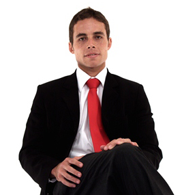 Pablo Argandoña, Governor of Elqui Province, Chile.